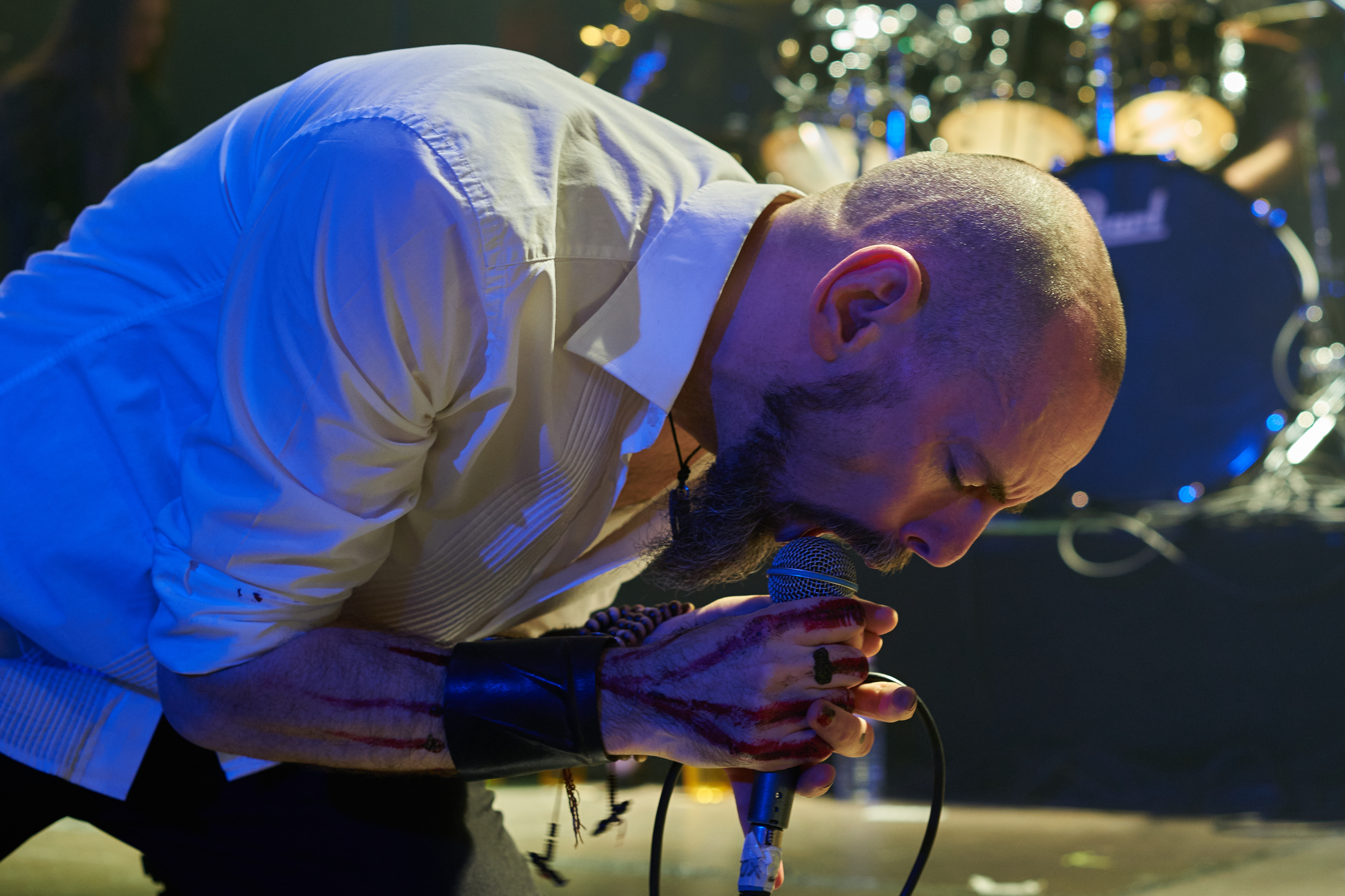 British band My Dying Bride at Hammer of Doom Festival, Würzburg, Posthalle, 21.11.2015 Festivalsommer This photo was created with the support of donations to Wikimedia Deutschland in the context of the CPB project "Festival Summer". Personality rights warning Although this work is freely licensed or in the public domain, the person(s) shown may have rights that legally restrict certain re-uses unless those depicted consent to such uses. In these cases, a model release or other evidence of consent could protect you from infringement claims.